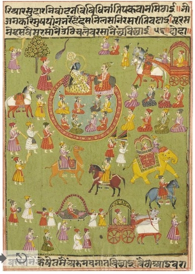 Lot Description An illustrated folio from the Mahabharata India, Rajasthan, probably Mewar, circa 1750 Blue-skinned Krishna with a shining halo and dressed in rich gold robes at center, seated in a circular enclosure at center and engaged in lively conversation with another nobleman while eight others listen, a festive procession in the foreground with honorees in colorful palanquins and carriages, including jubilant musicians, with inscriptions above and below, page numbers in the margins and text on the verso Opaque pigments and gold on wasli 11¾ x 8 7/8 in. (29.8 x 22.6 cm.), folio